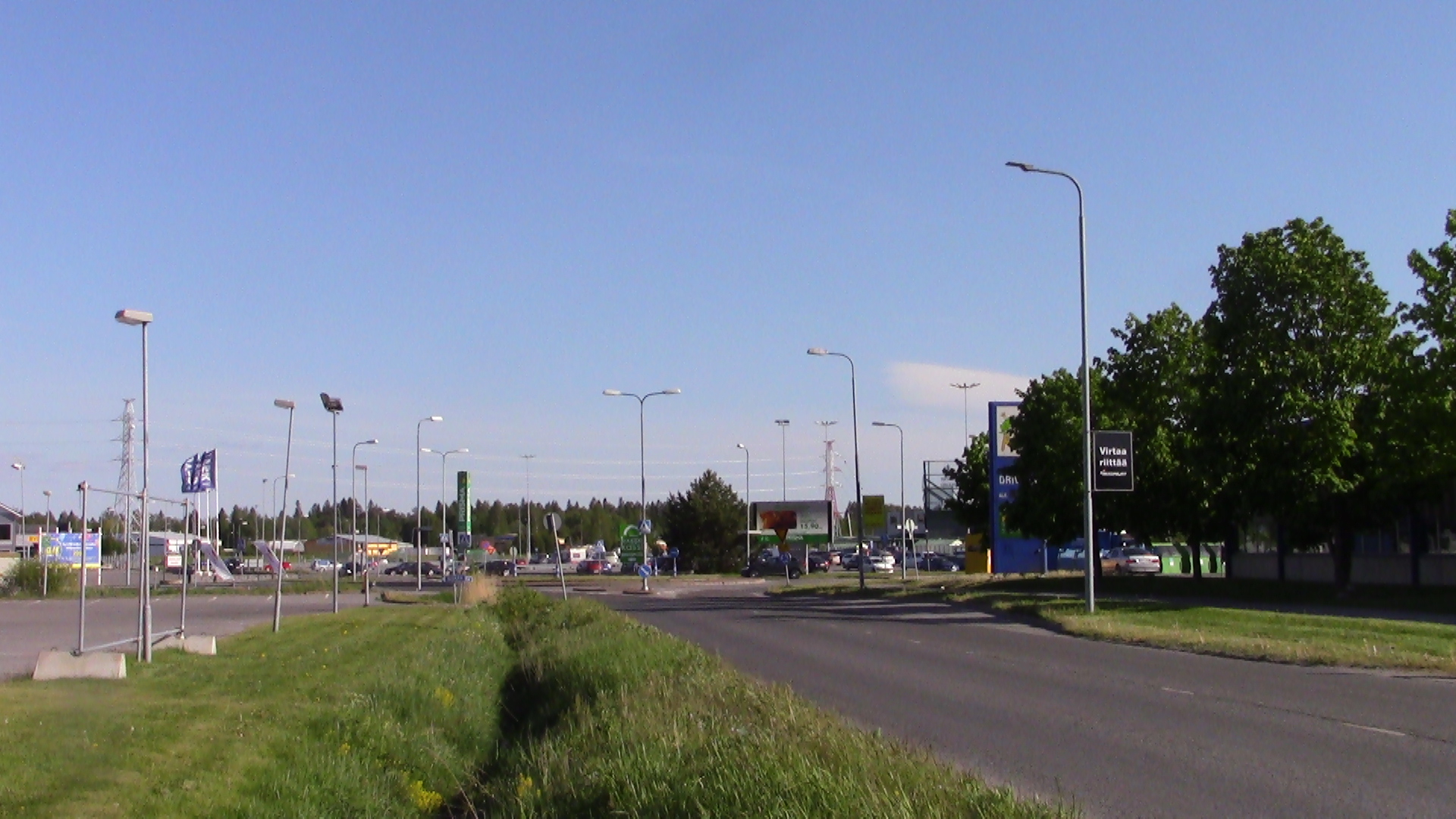 Itäkeskuksenkaari road at Mikkola suburb in Pori, Finland.